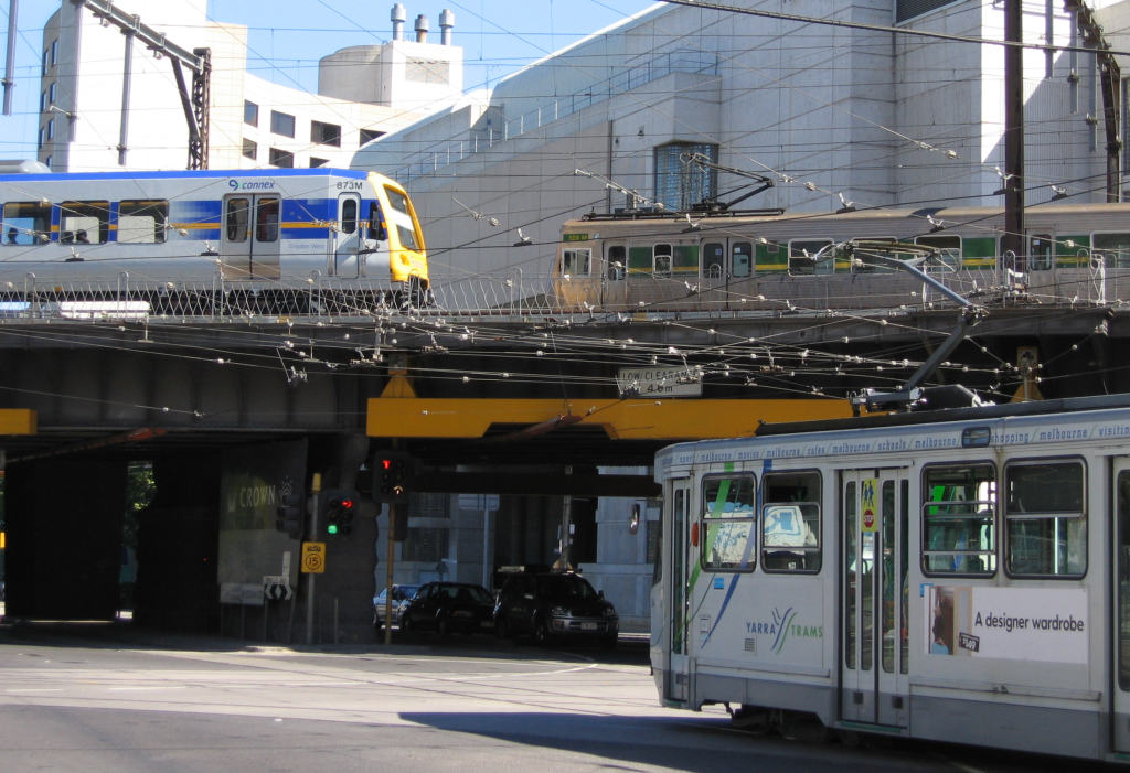 A class tram, Hitachi and XTrapolis trains, corner of Flinders and Spencer Streets - Melbourne, Australia